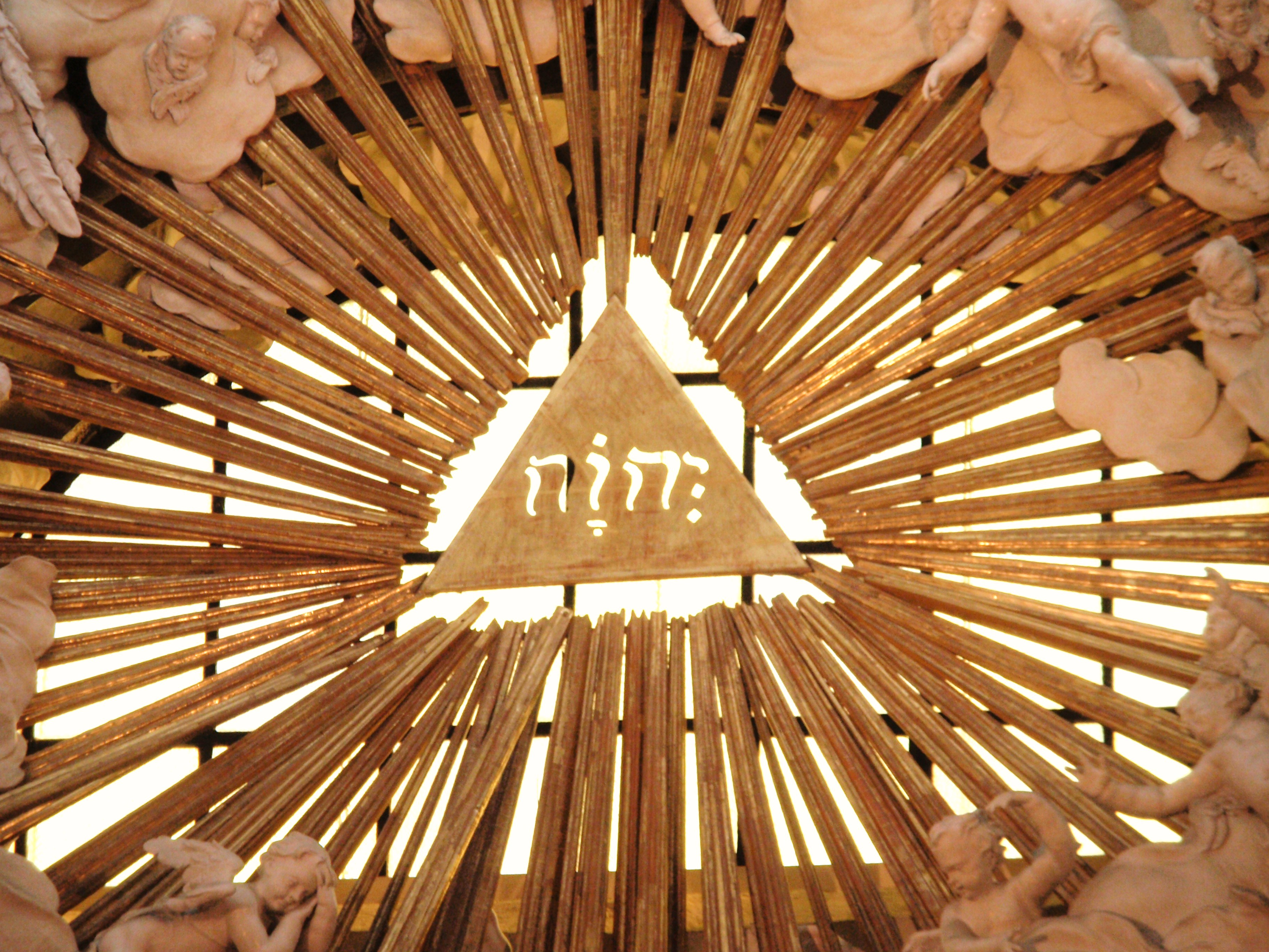 Austria, Vienna, St. Charles's ChurchThe Tetragrammaton Yahweh intended to be pronounced Adonai (see File:Tetragrammaton-related-Masoretic-vowel-points.png). From the window above the main altar in Karlskirche on the south side of Karlsplatz, Vienna.